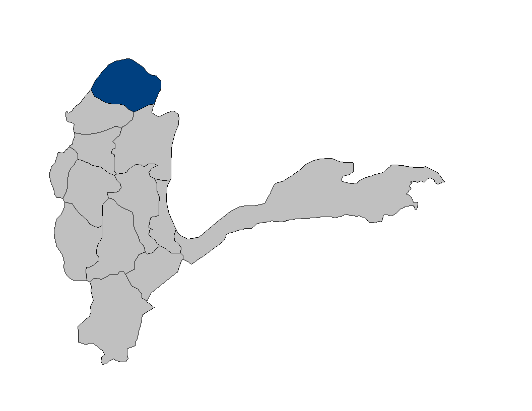 Location map for the Darwaz District of Badakhshan Province, Afghanistan. Original map source: Image:Badakhshan districts.png